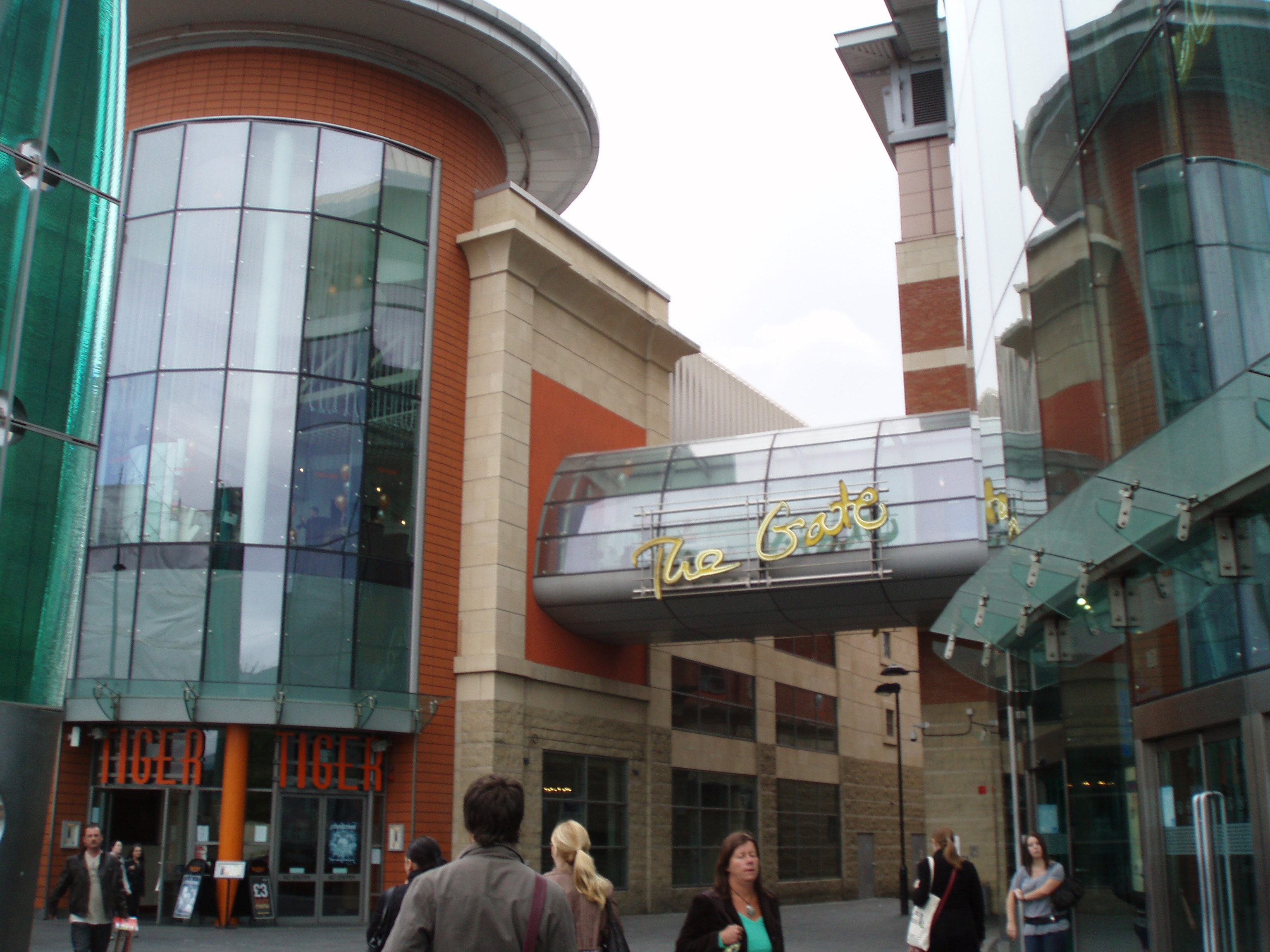 This is the outside of The Gate, Newcastle